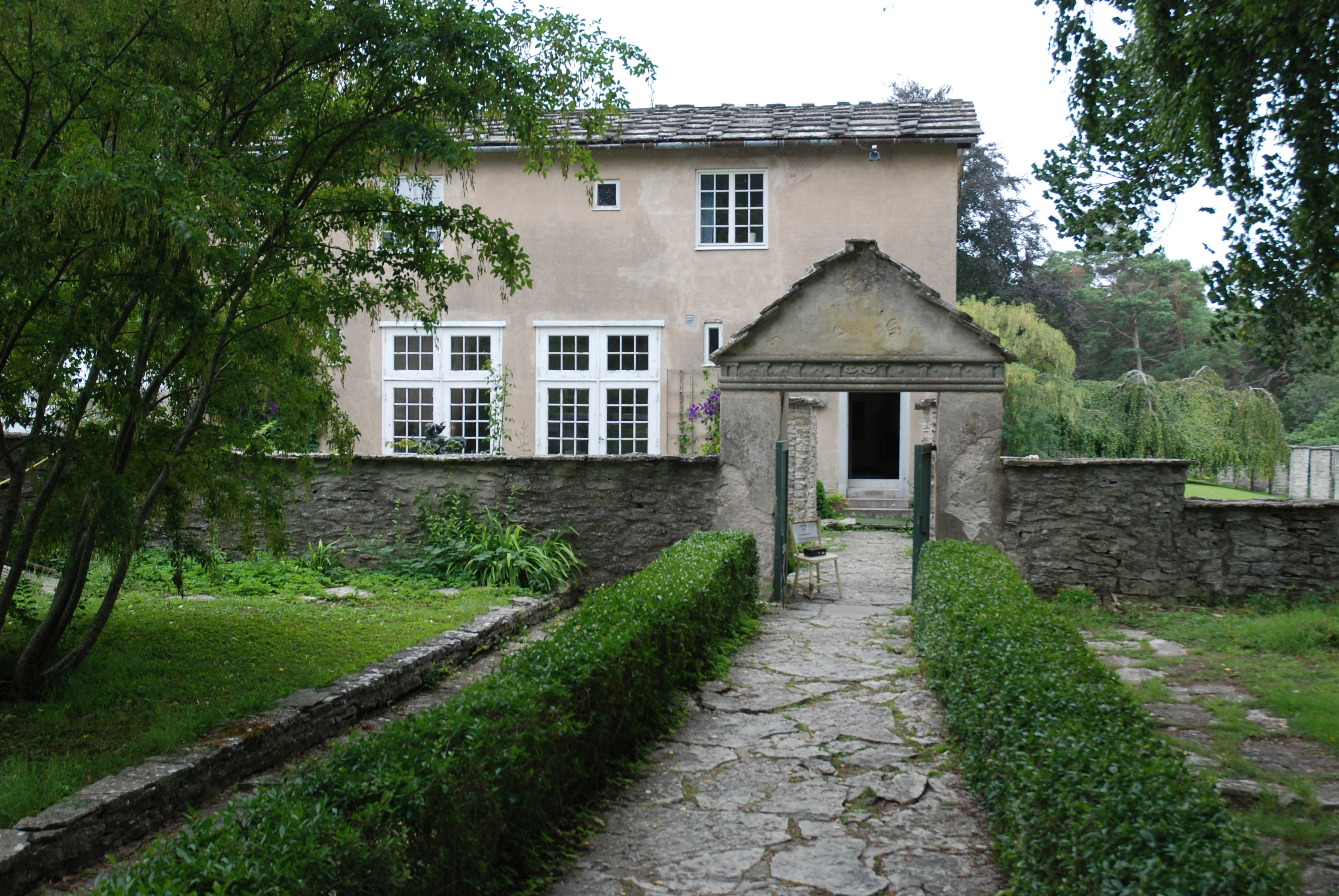 Muramaris, former home of Johnny Roosvaal north of Visby, Gotland, Sweden